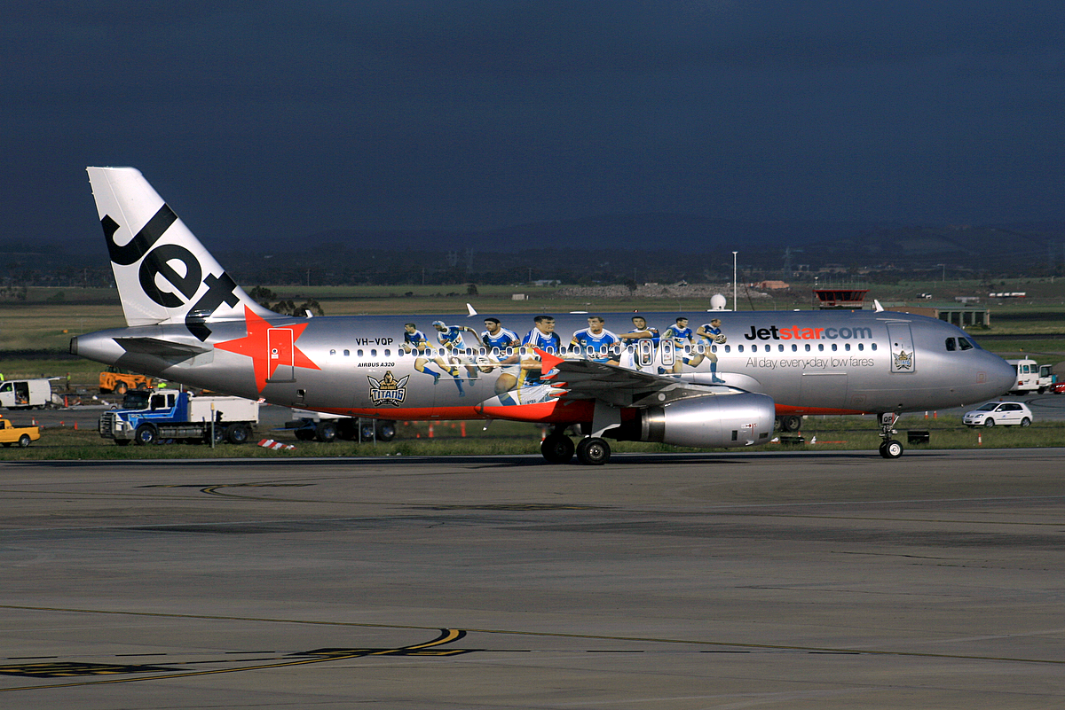 Jetstar Airways Airbus A320-232 VH-VQP with special Gold Coast Titans decals